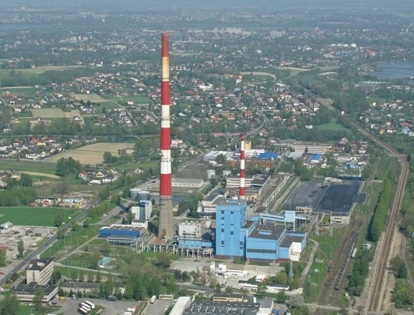 Power Plant Bielsko-Północ in Czechowice-Dziedzice near Bielsko-Biała, Poland.